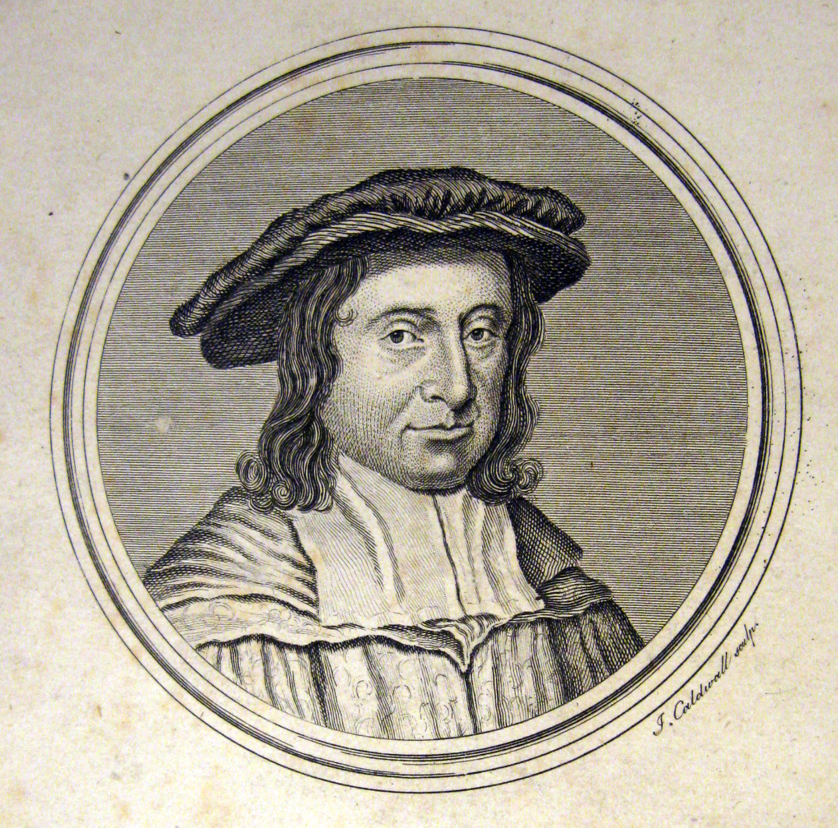 This is a 1664 line engraving of Christopher Gibbons (1615 - 1676) by James Caldwall, after an Unknown artist. It was first published in 1776 within Sir John Hawkins's A General History of the Science and Practice of Music. The Engraving is 5 5/8 in. x 5 in.